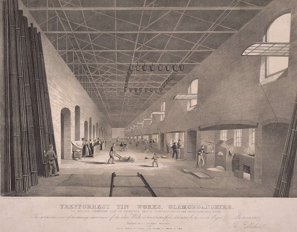 The interiors of Trefforest Tin Works showing men, women and boys working.